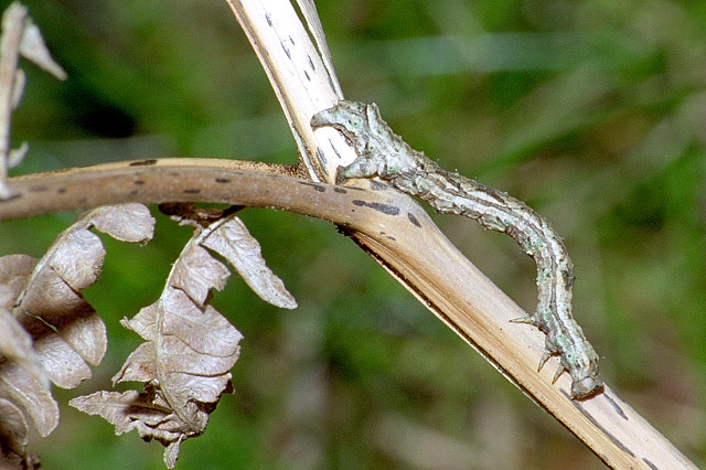 Picture taken in Commanster, Belgian High Ardennes . Species: Xanthorhoe fluctuata caterpillar